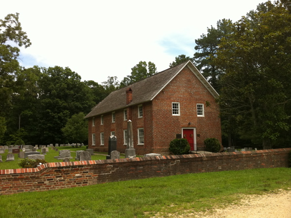 Christ Church, Durham Parish, Charles County, Maryland, established 1666, 1732 building.